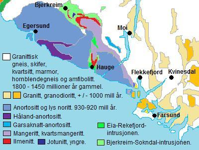 Geological map of the Rogaland Anortisite formation, including the ilmenit bearing layers of the Bjerkreim-Sokndal intrusion. The formation is c. 920-930 mio years old.